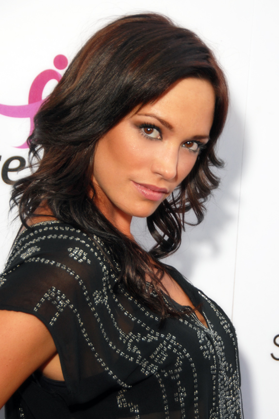 Jessica Sutta attending "Susan G. Komen's 8th Annual Fashion For The Cure" event - Hollywood, CA on Sept. 24, 2009 - Photo by Glenn Francis of